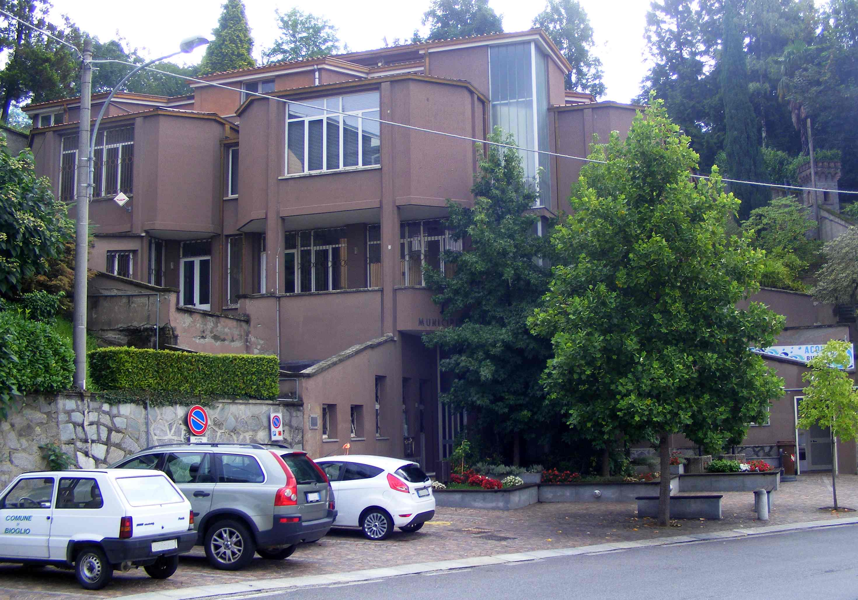 Bioglio (BI, Italy):town hall